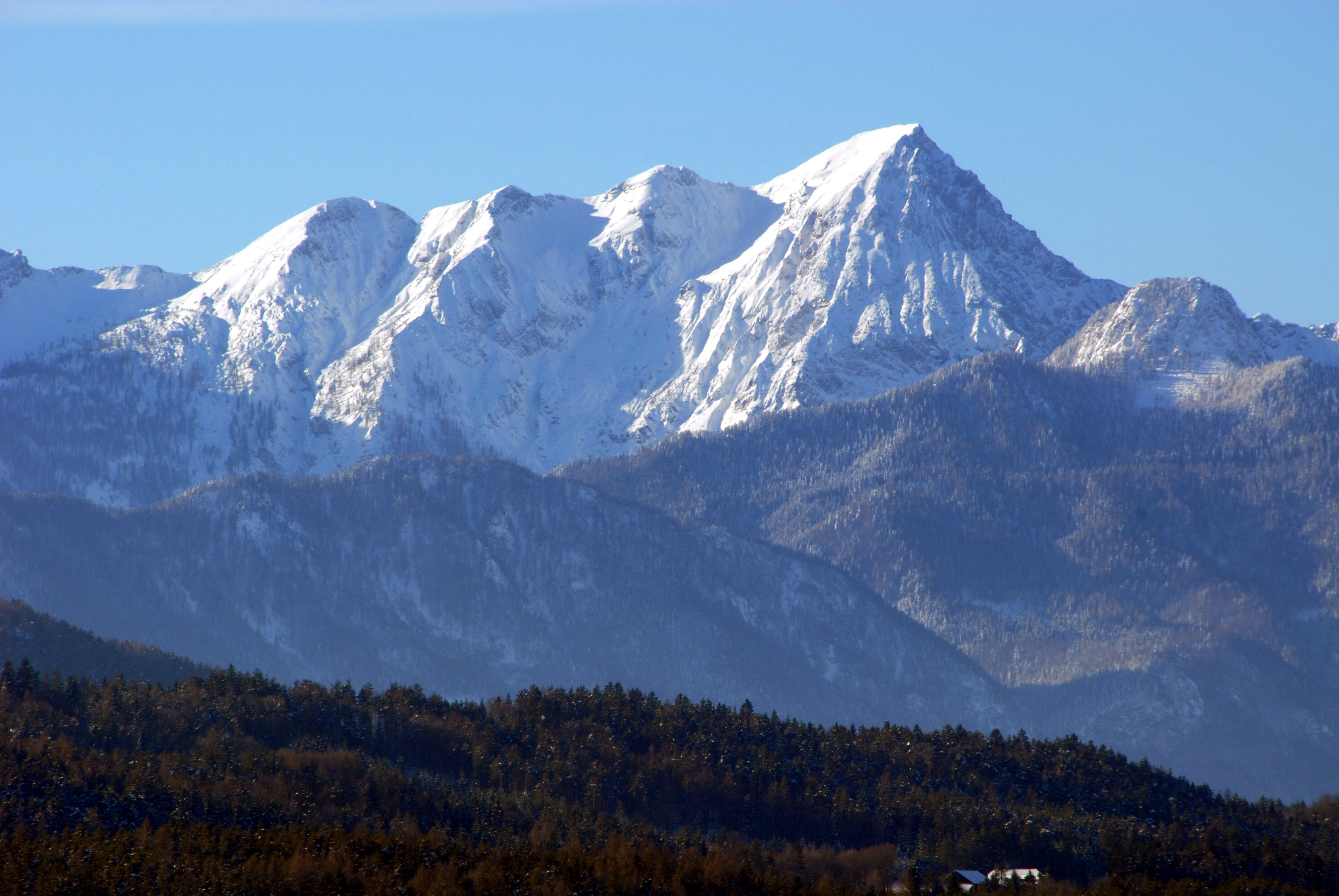 Mittagskogel at the Karawanken mountain-range, Carinthia, Austria, EU, (seen from Pörtschach on the Lake Woerth)